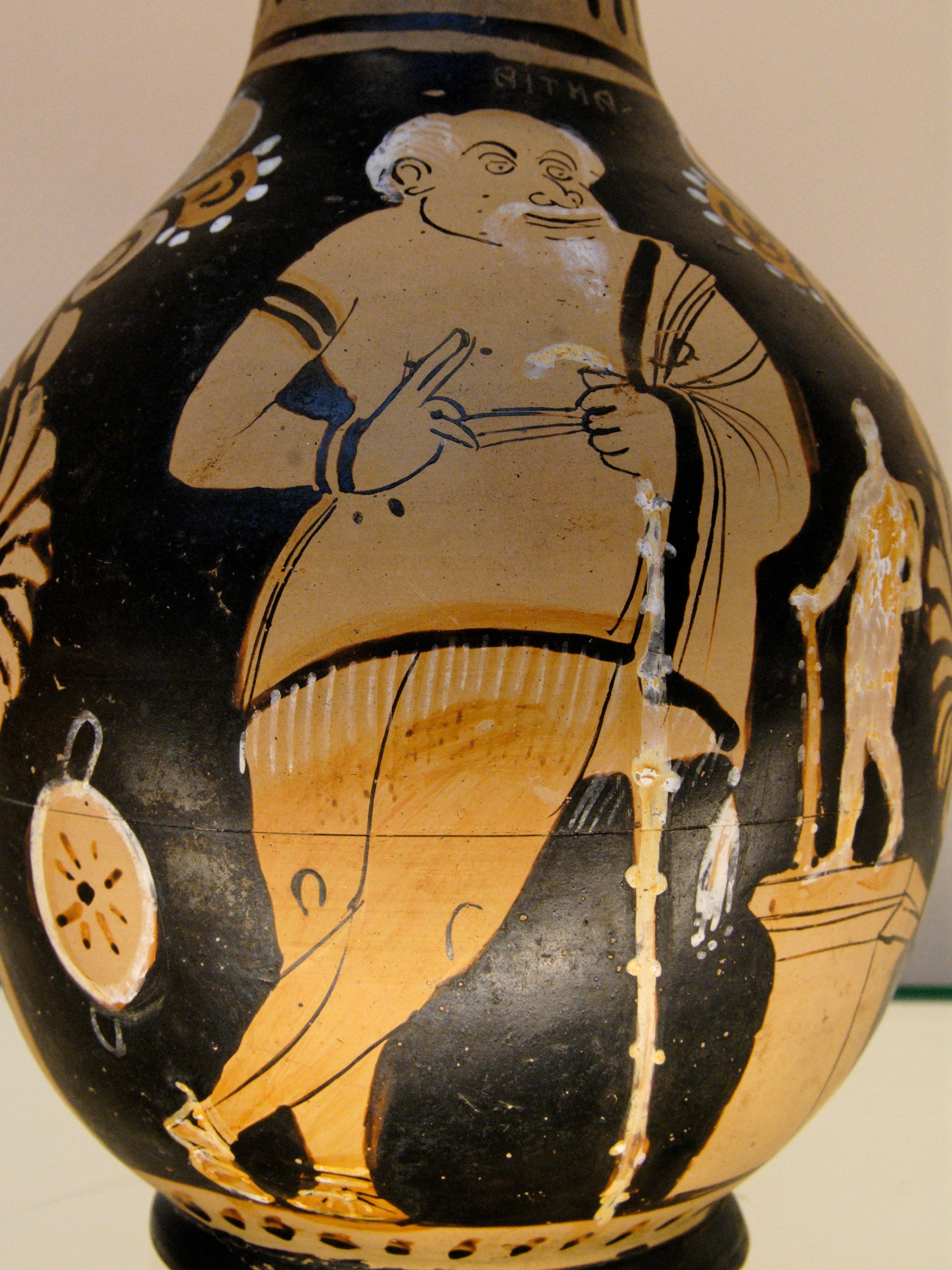 The actor Xanthias, masked and costumed, standing next to a statuette of Heracles. Detail from a Campanian red-figure oinochoe, ca. 350-340 BC.